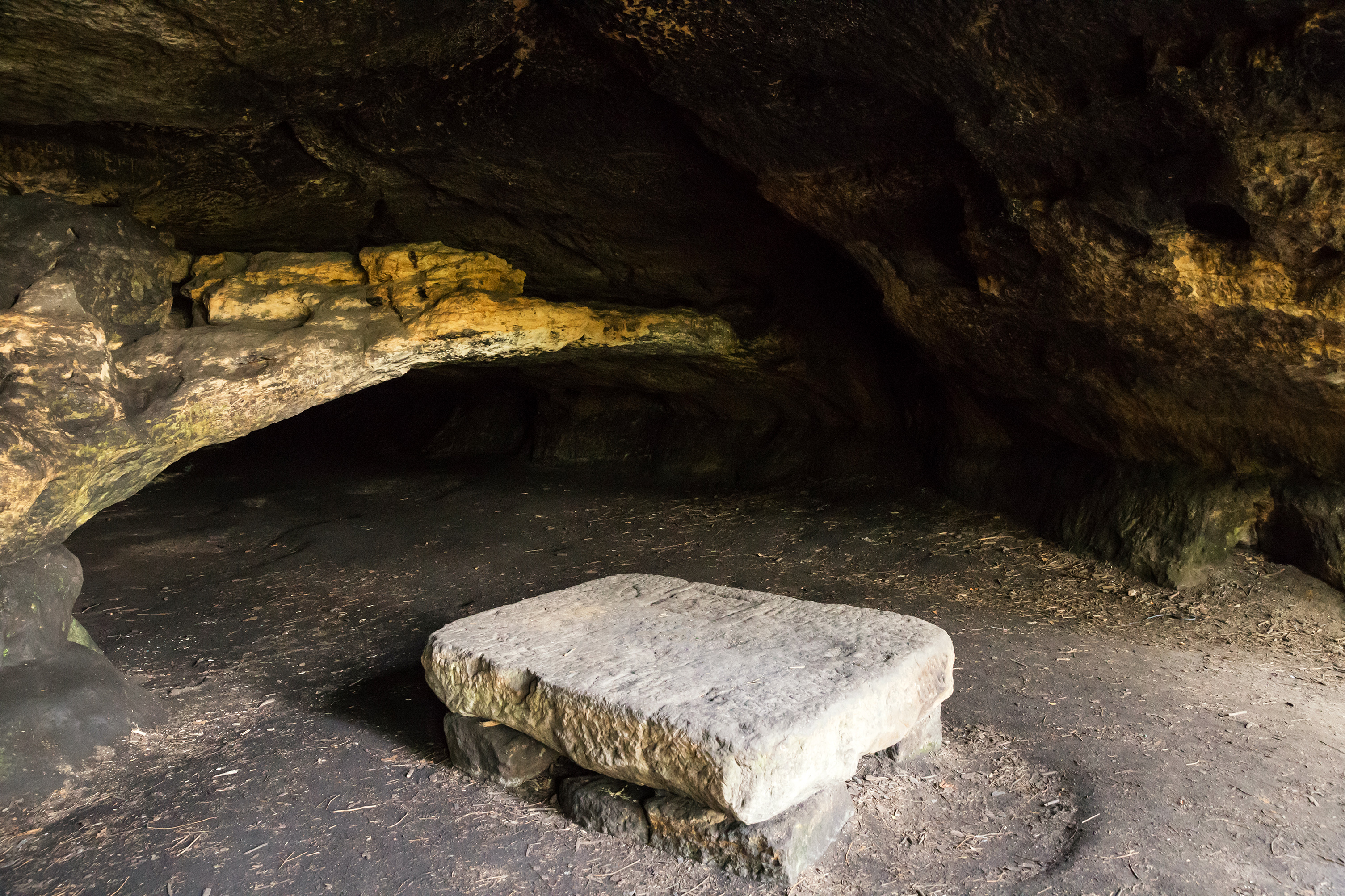 Diebskeller (Thieves' Cellar), also: Diebshöhle (Thieves' Cave) at the Quirl (hill in Saxon Switzerland)